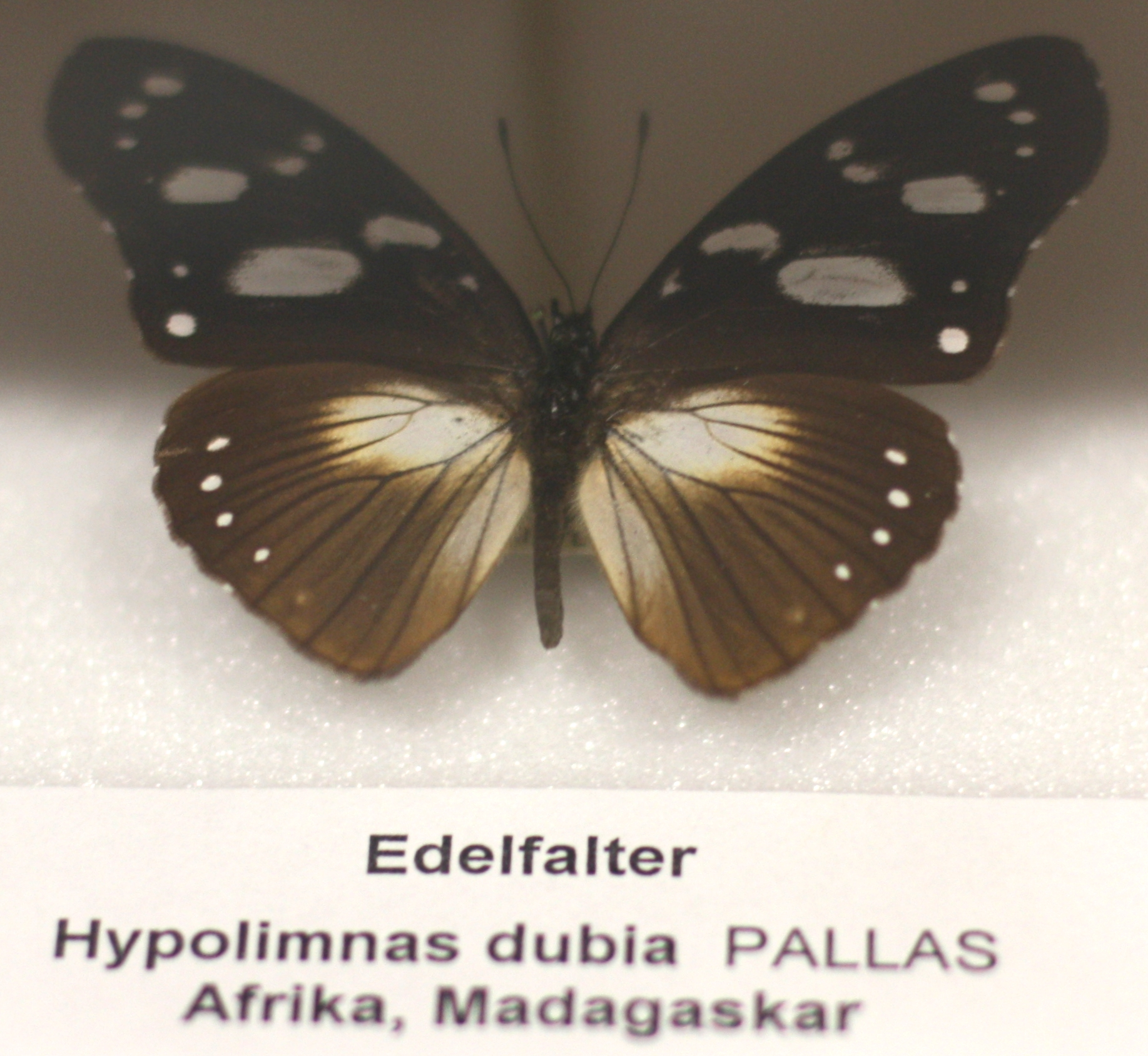 Naturkundliche Sammlung Übermaxx Überseenuseum Bremen; Schmetterlinge und andere Hypolimnas anthedon (Doubleday, 1845) Valid trinomial Hypolimnas anthedon ssp.drucei Synonym Papilio dubius Palisot de Beauvois, 1813-1830; (preocc.) Mistaken for Pallas on label Synonym Hypolimnas dubius (Doubleday, 1845)